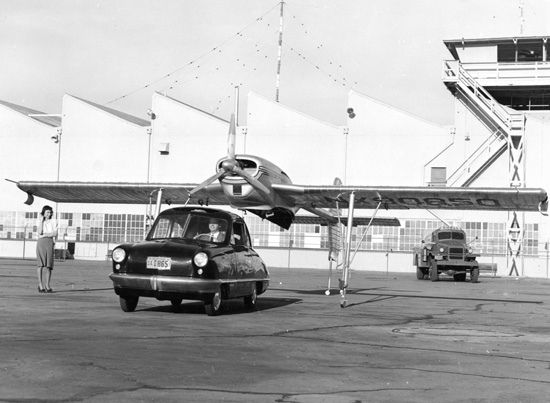 Demonstration of the removal of the flying surfaces of the Convair Model 118 "ConvairCar", allowing the vehicle to be driven as an automobile.